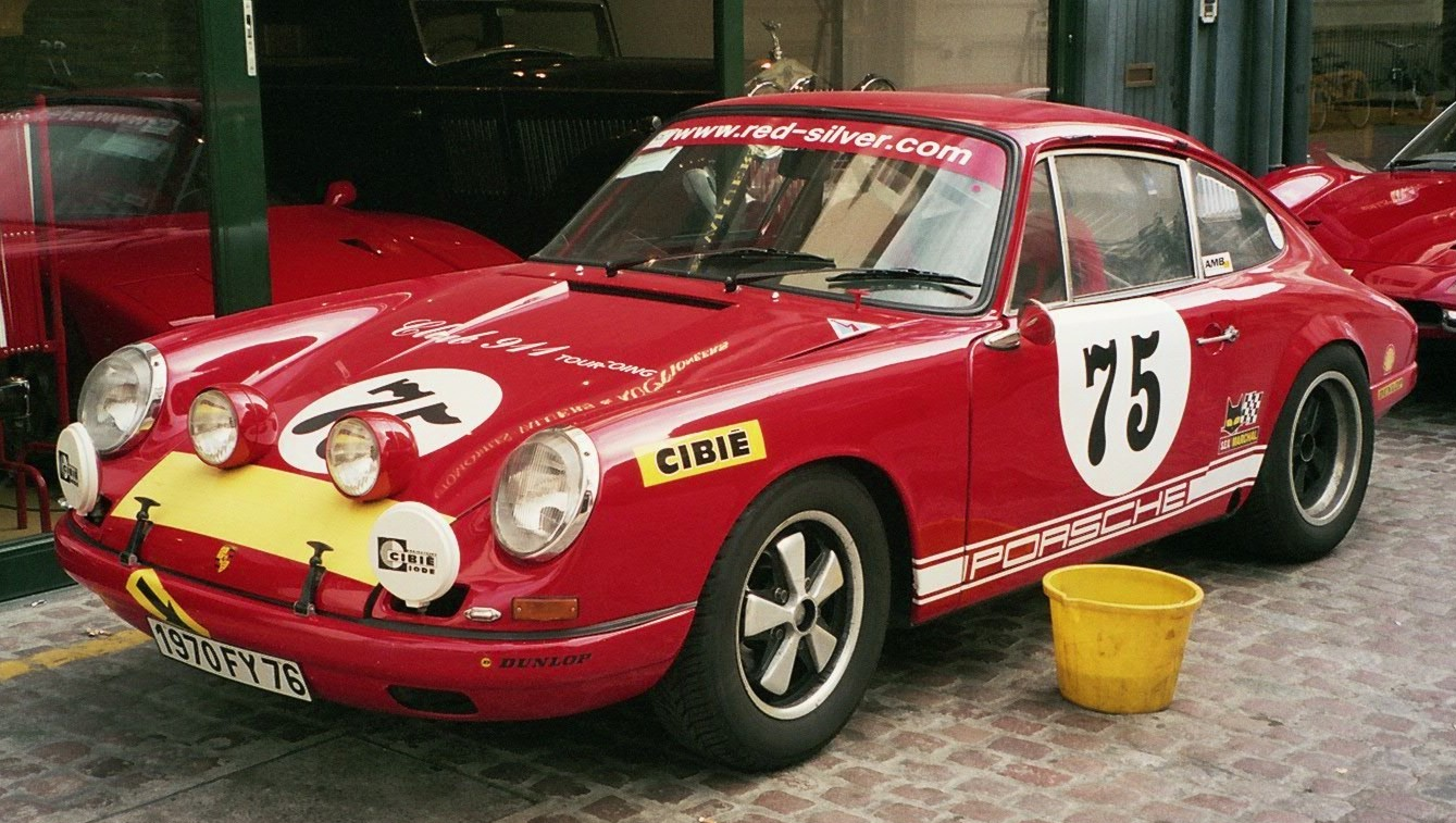 Vintage car sold at Coys of Kensington, London